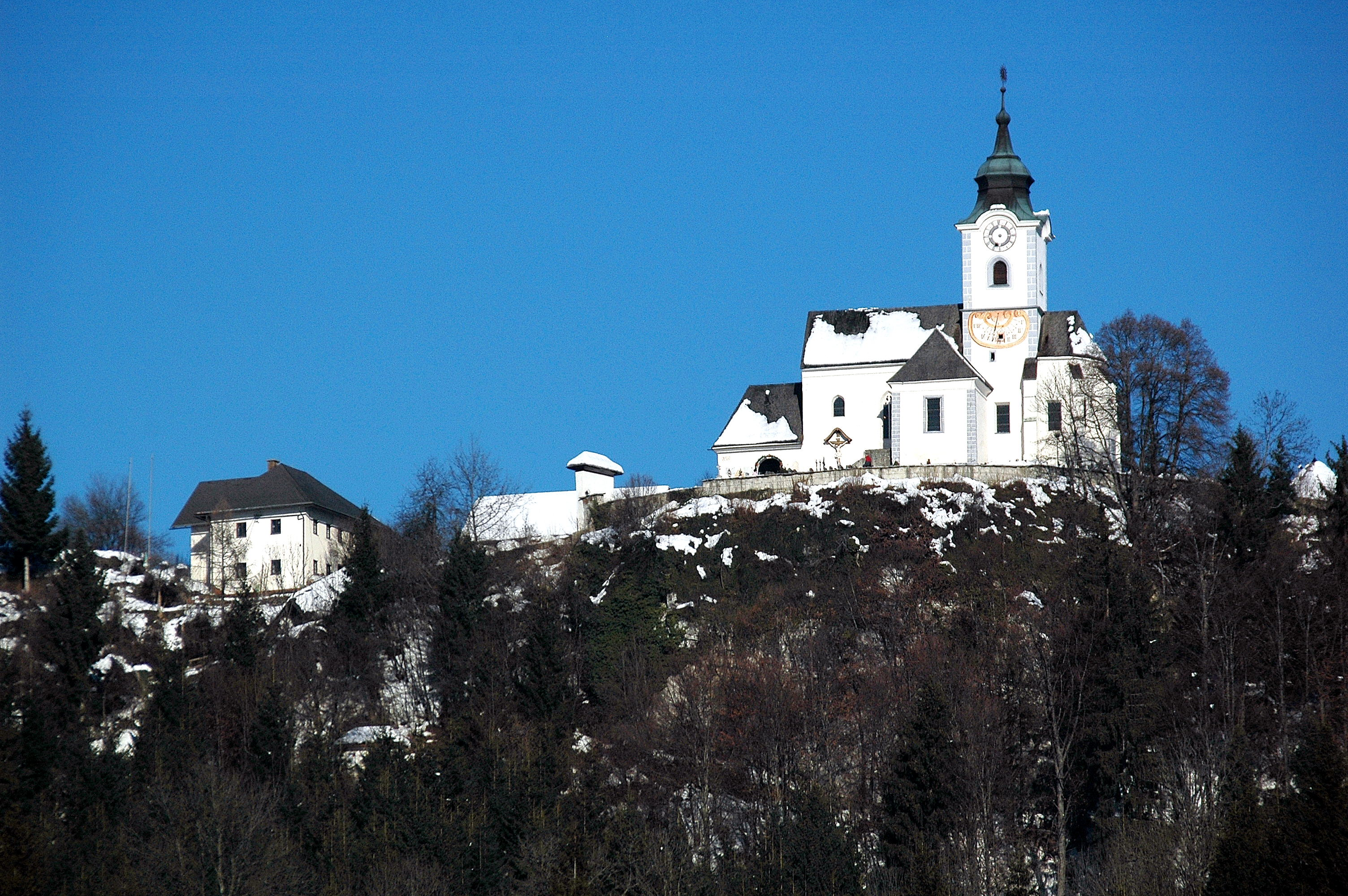 Southern view of the parish church Saint George in Sternberg, municipality Wernberg, district Villach Land, Carinthia, Austria, EU